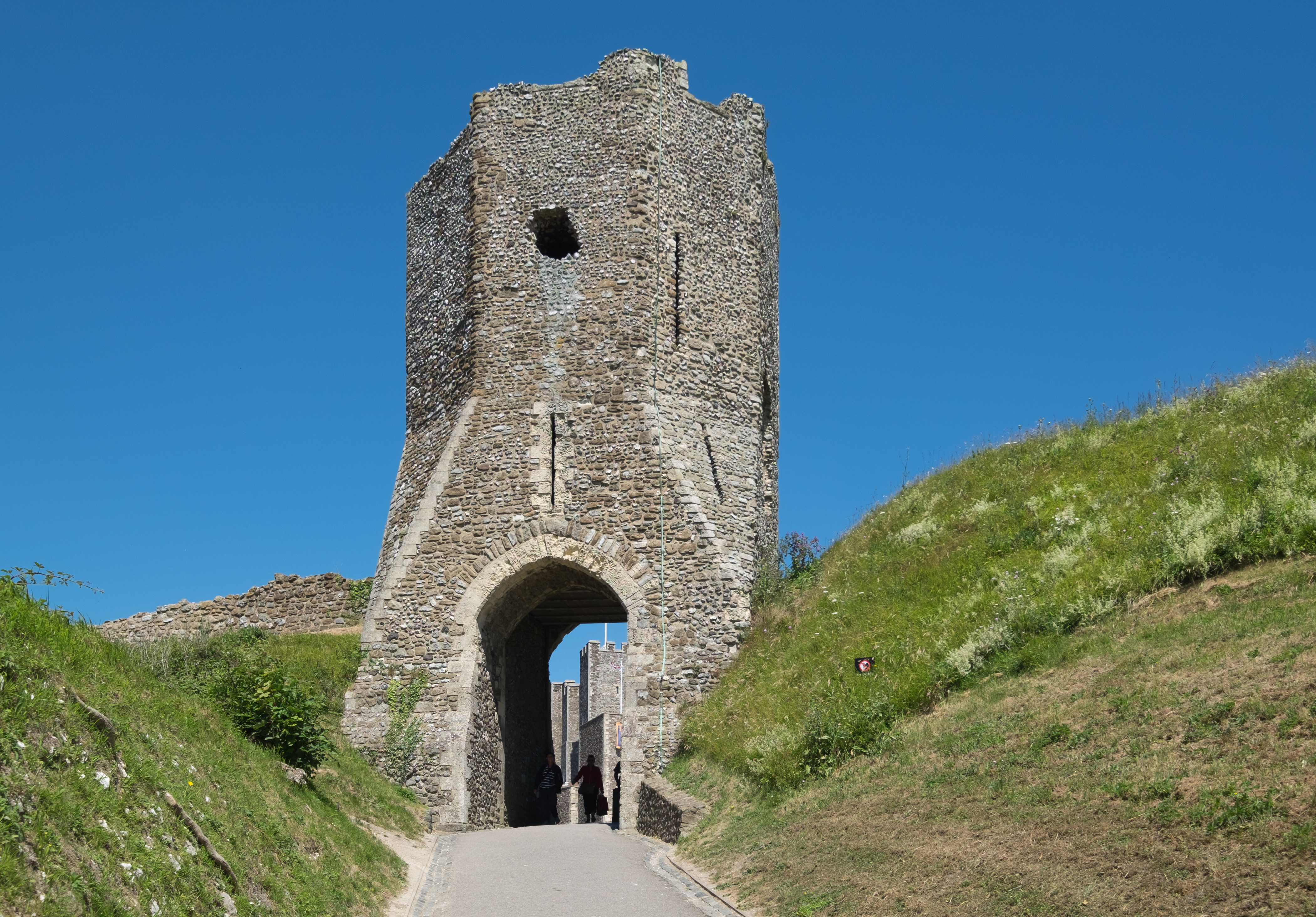 Colton's Gate in Dover Castle